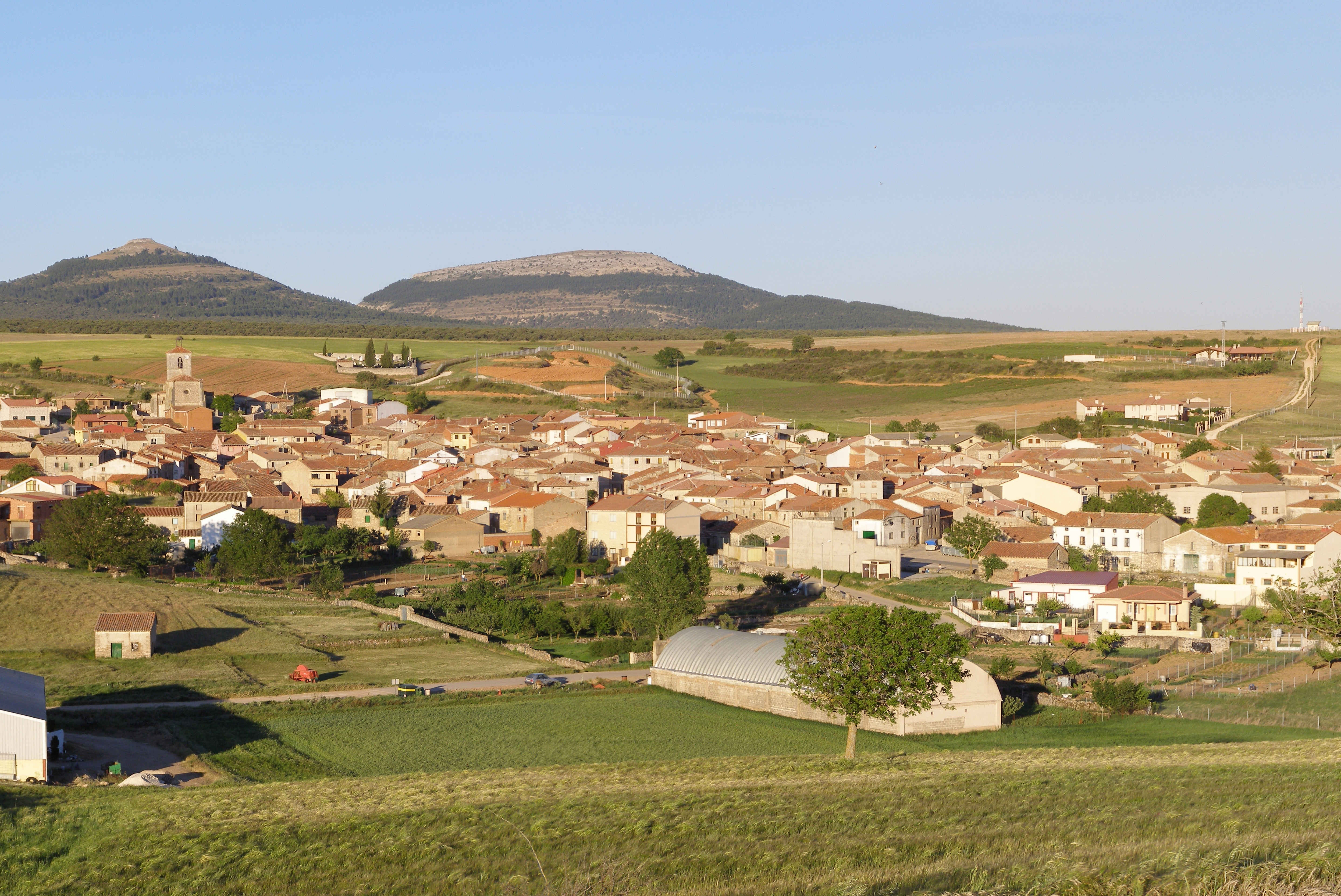 View of Mecerreyes, province of Burgos (Spain).